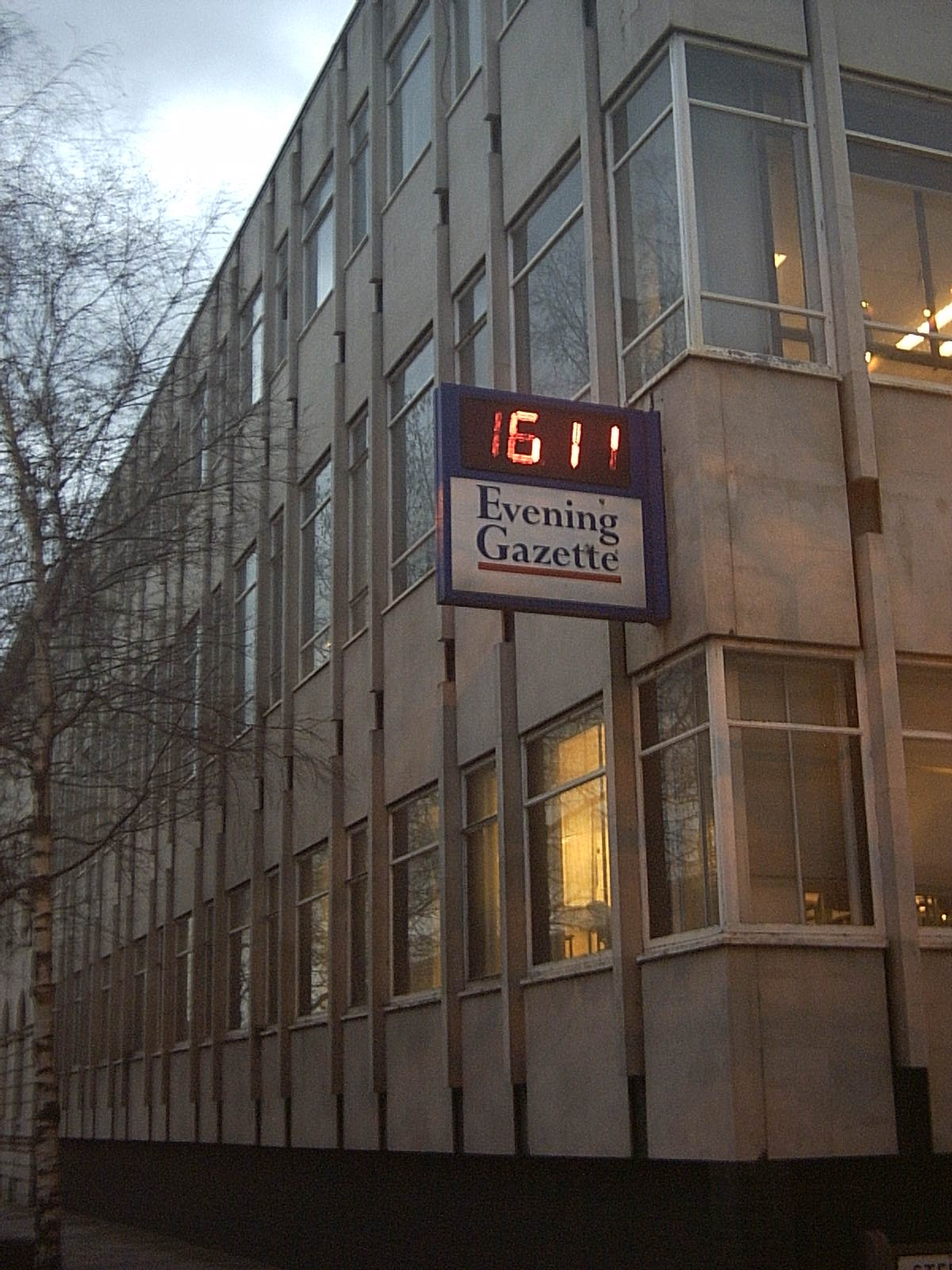 evering gazette Borough Road , Middlesbrough, this is the Clock part of the Building. Taken my me Neil Gray 2007 Nez202